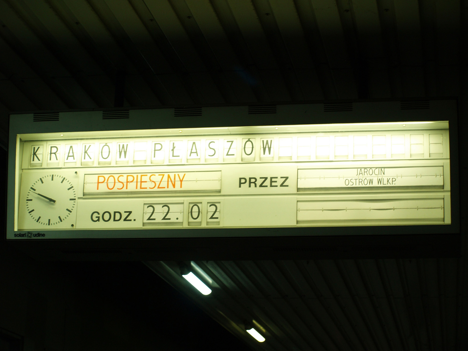 Split-flap display